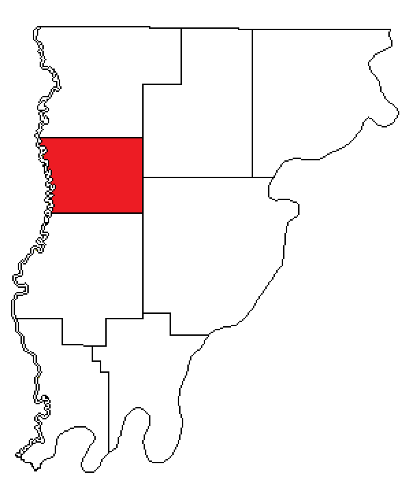 Lick Prairie Precinct in Wabash County, Illinois.